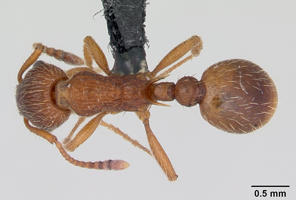 Dorsal view of ant Myrmica gallienii specimen casent0172712.